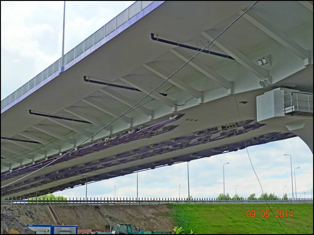 Freeway bridge on autostrada A1 in Mszana, Poland